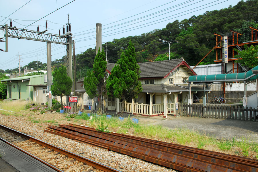 TanWun Station is a small local train station of Taiwan's Western main rail line. It's located within the boundary of ZaoCiao Township, Miaoli County. This photo shows view of the old-style wooden building from the platform.